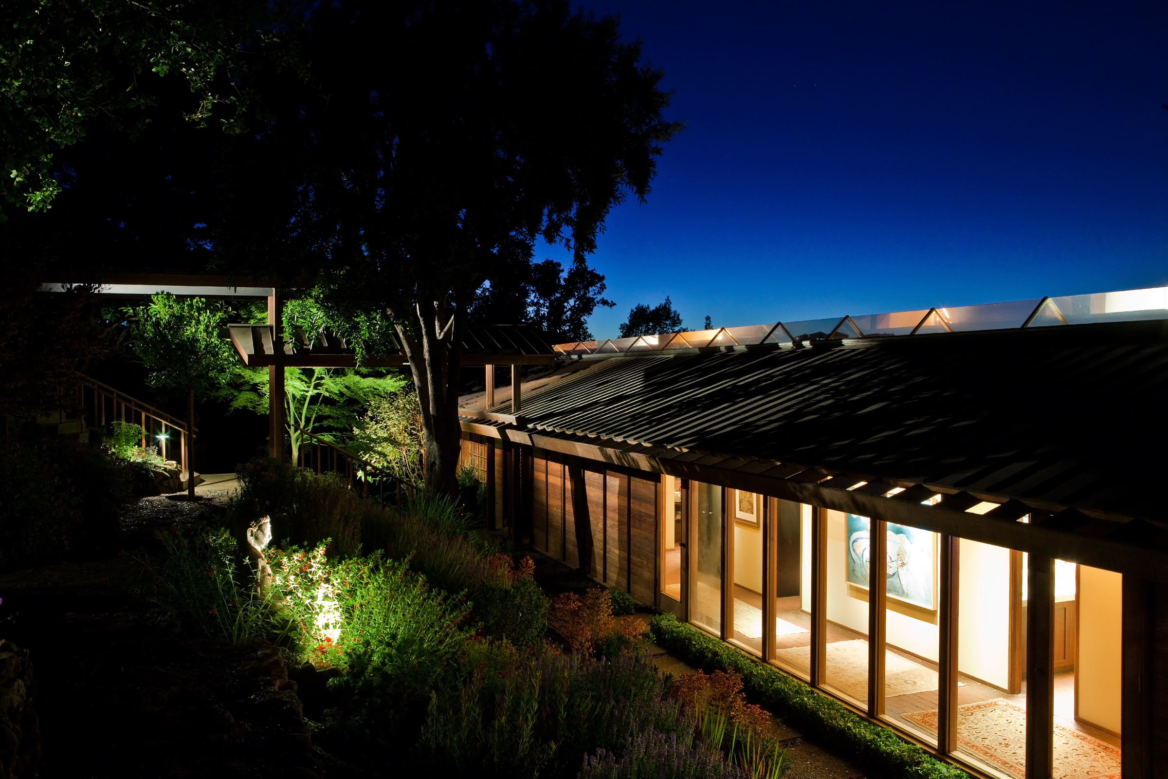 View #2 of 1966 San Rafael, California Home Designed by Architect Henrik H. Bull.